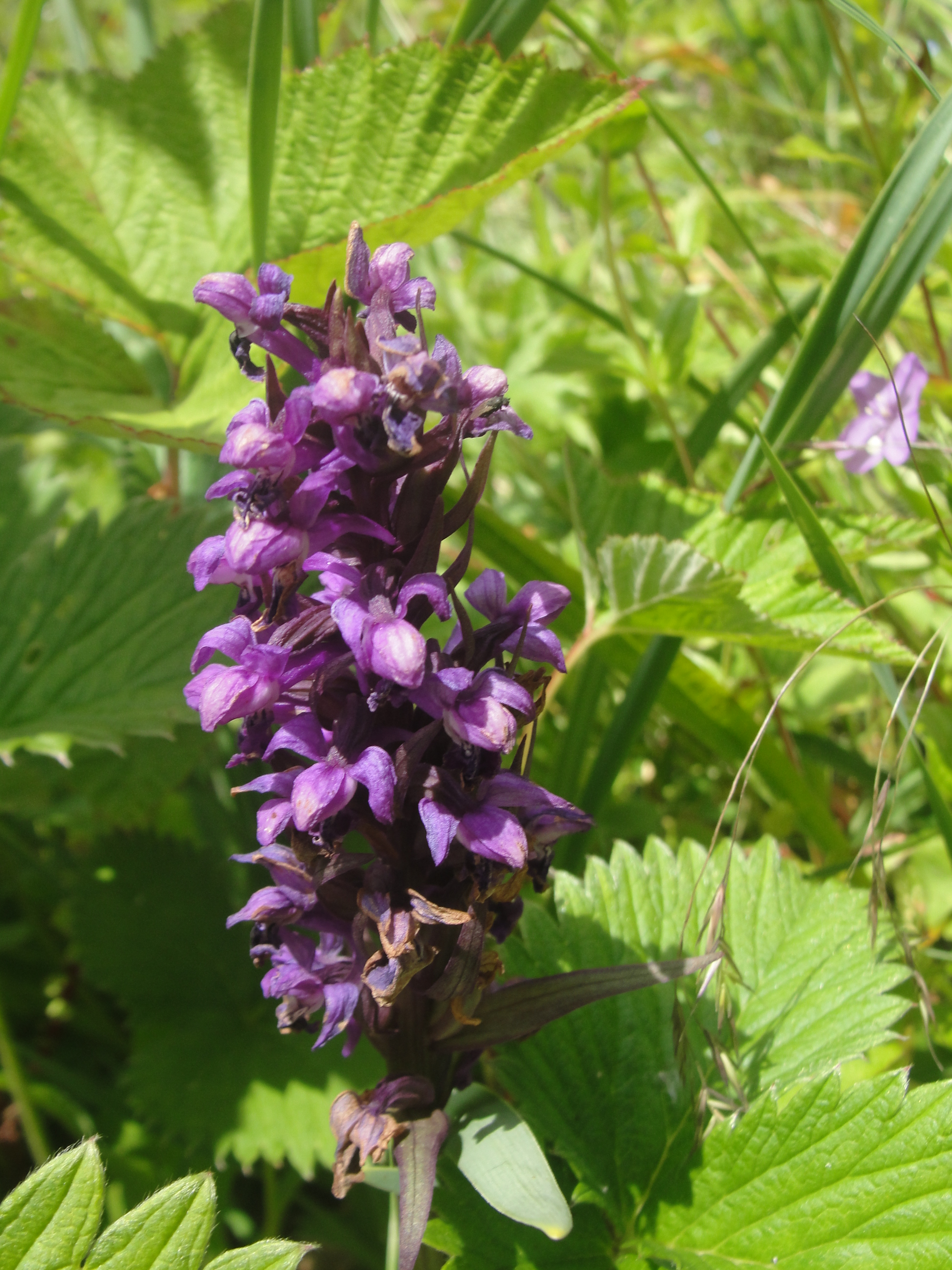 It is a species of orchid found in the Himalayas. Locally known as 'Hattajadi'. the plant has medicinal values and is becoming endangered due to illegal harvesting.